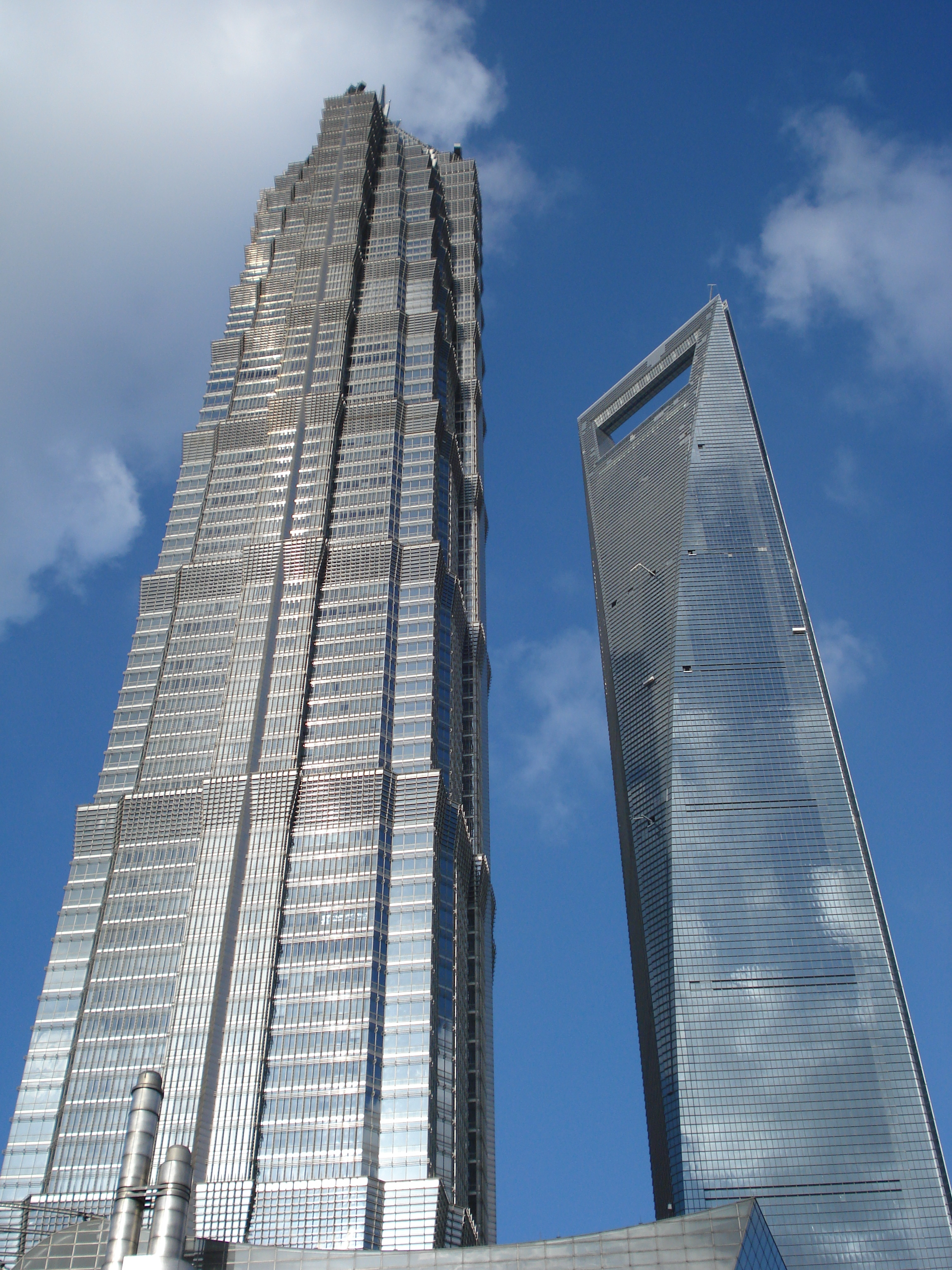 Jin Mao Tower and Shanghai World Financial Center